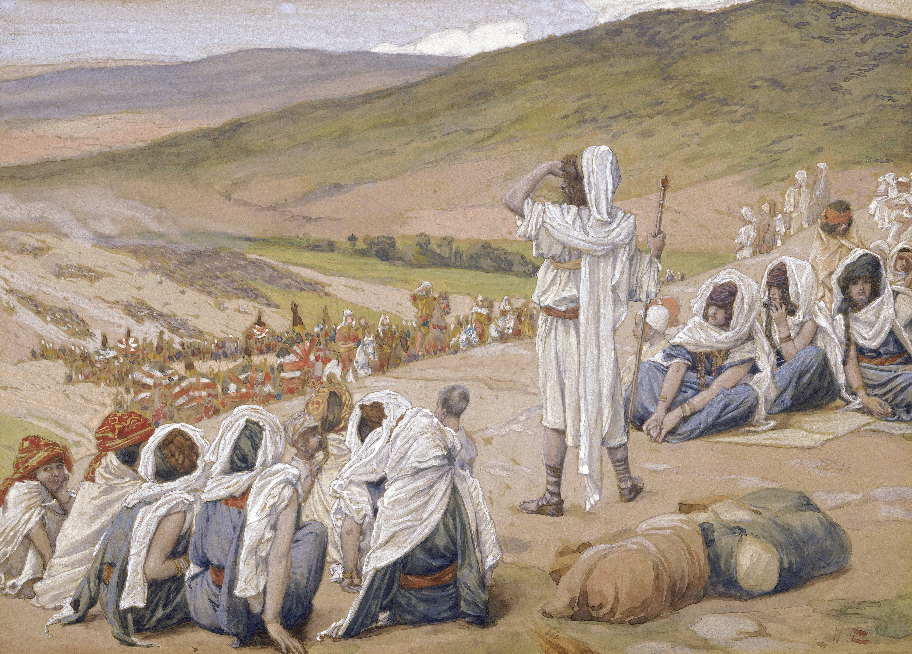 Jacob Sees Esau Coming to Meet Him, c. 1896-1902, by James Jacques Joseph Tissot (French, 1836-1902), gouache on board, 8 3/8 x 11 13/16 in. (21.3 x 30 cm), at the Jewish Museum, New York